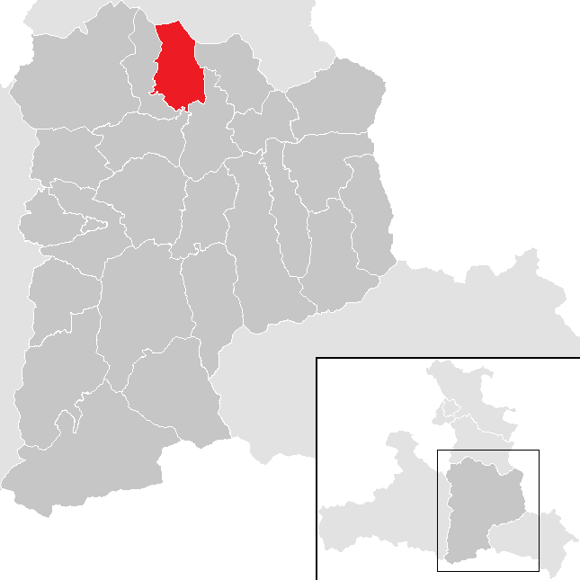 District Sankt Johann im Pongau